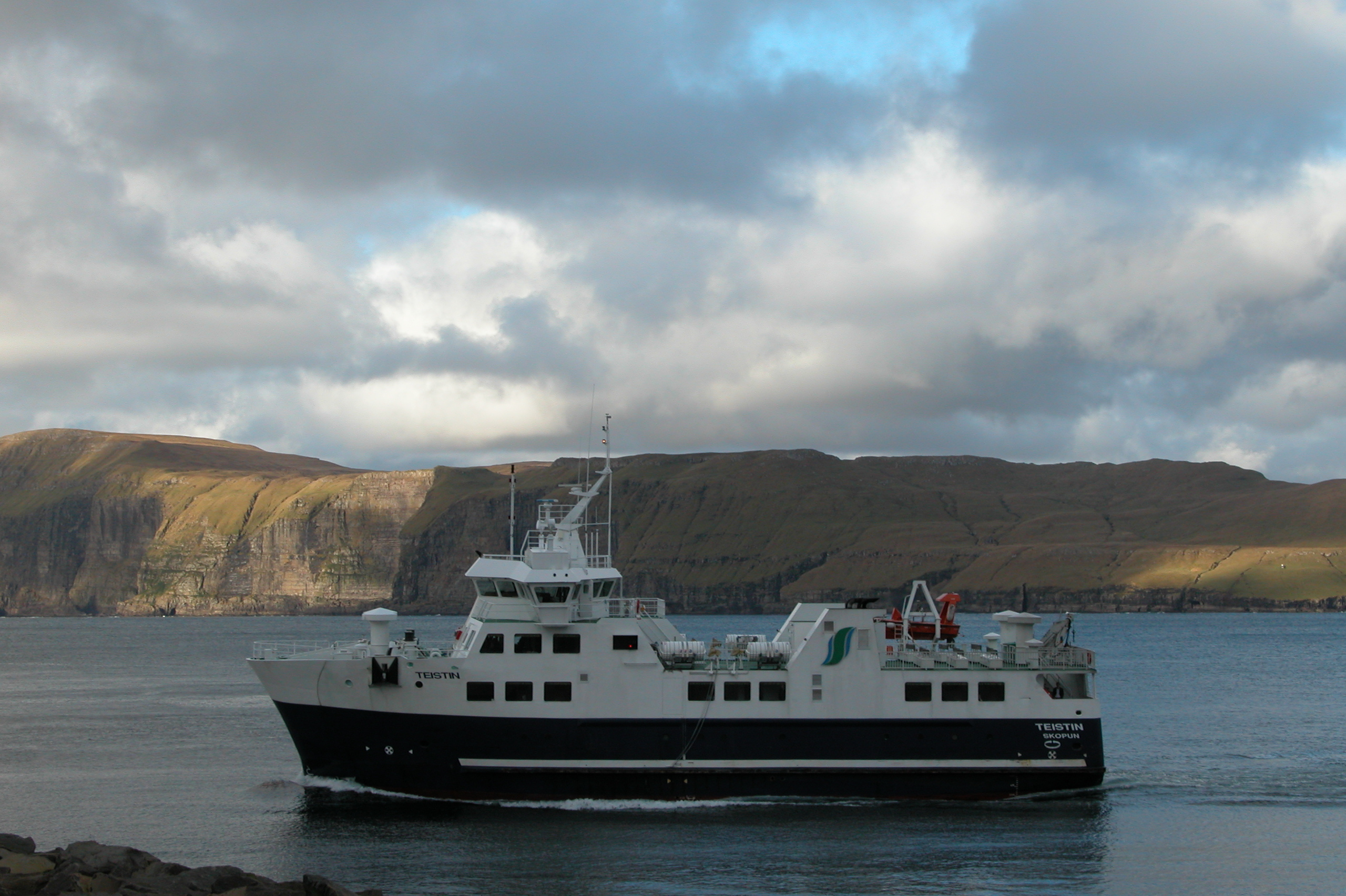 The ferry Teistin of Strandfaraskip Landsins on her way to Skopun, Sandoy, Faroe Islands. The island of Hestur in the background.